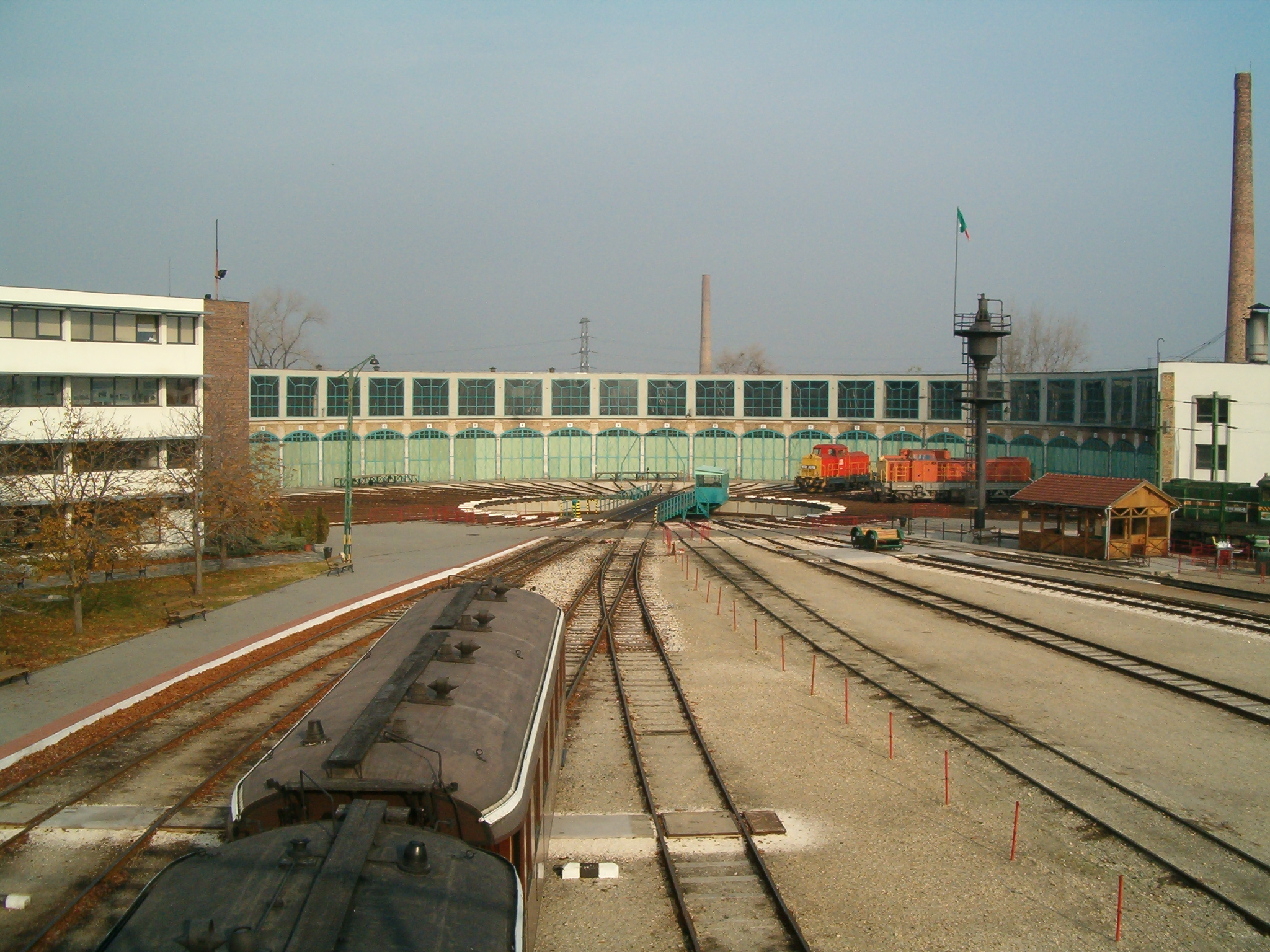 Az Északi fűtőház a mozdonyfordítóval (The Northern depot with the turntable)